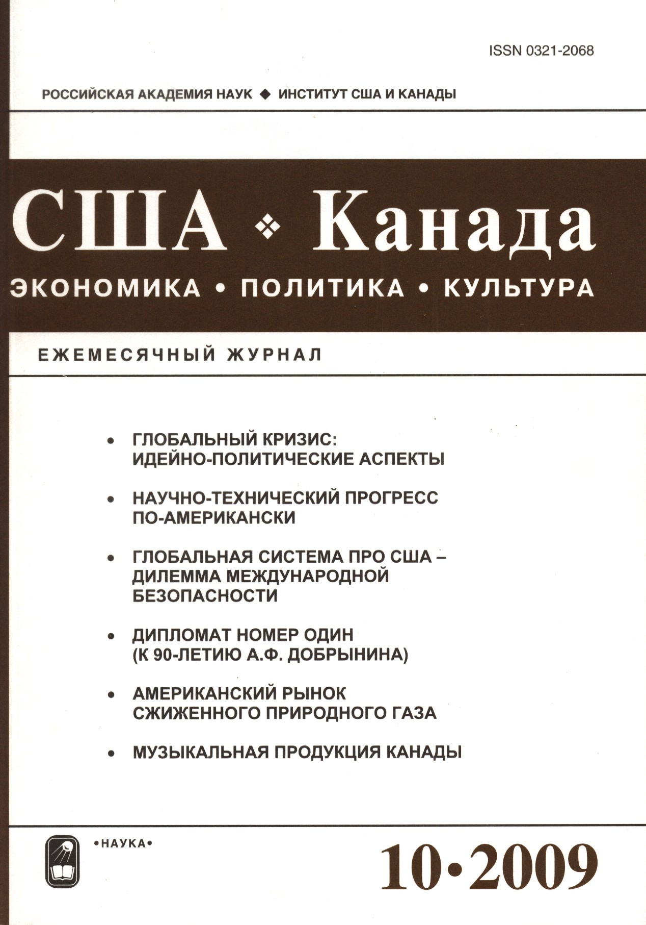 USA-Canada--Monthly-Journal